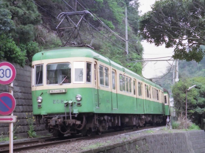 Enoshima Electric Railway type 500 No.502